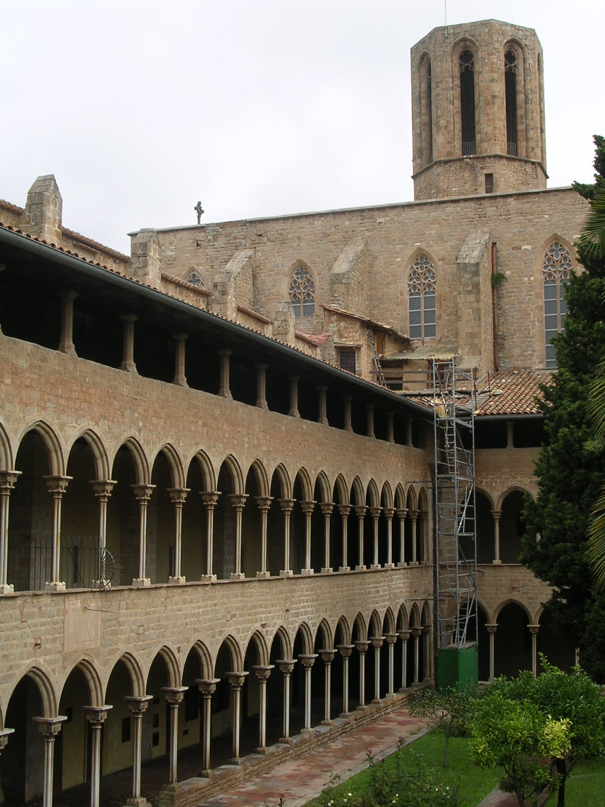 Cloister and church of Santa Maria de Pedralbes in Barcelona (Catalonia).